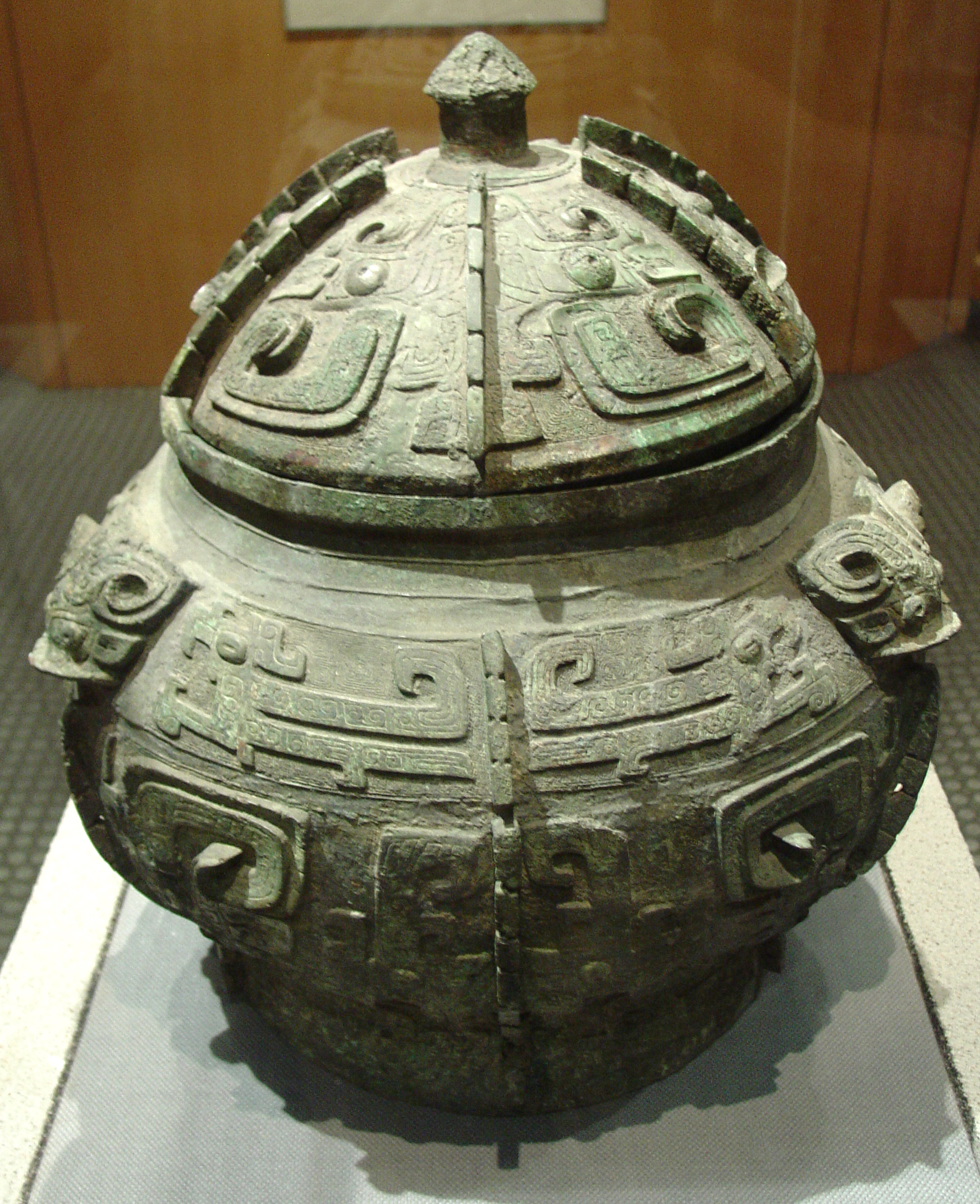 Bu Bronze Vessel. Shang Dynasty. Henan Provincial Museum, Zhengzhou This bu (wine container) is from the tomb of Fu Hao, a royal consort and general(!) who died c. 1250 BC. Her unlooted tomb at Anyang was opened in 1976.